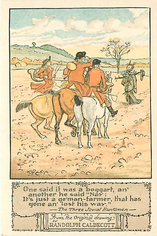 A Randolph Caldecott postcard: One said it was a boggart, an' another he say "Nay; It's just a ge'man-farmer, that has gone an' lost his way"